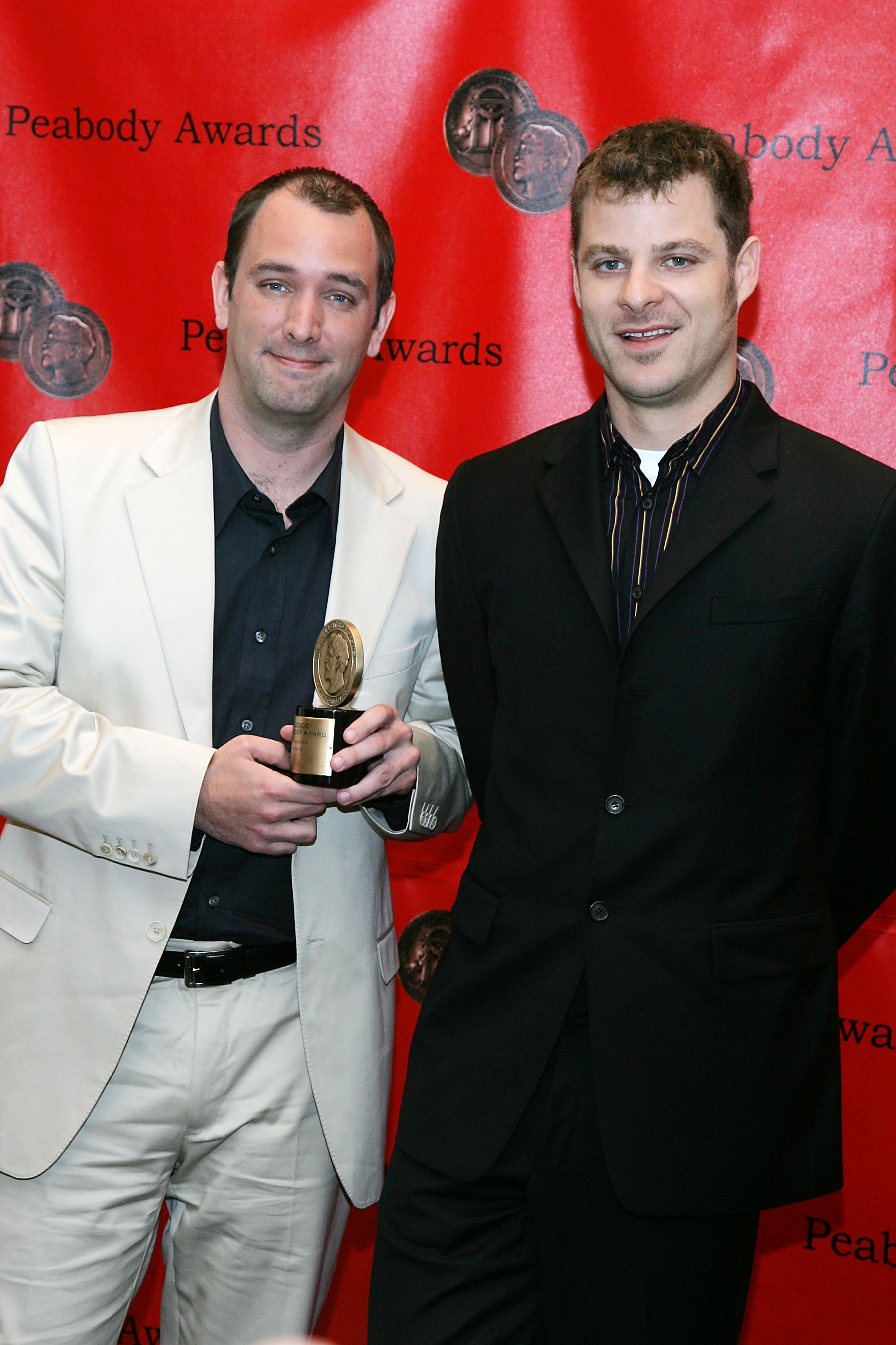 Trey Parker and Matt Stone, 65th Annual Peabody Awards Luncheon Waldorf=Astoria Hotel New York, NY USA June 5, 2006